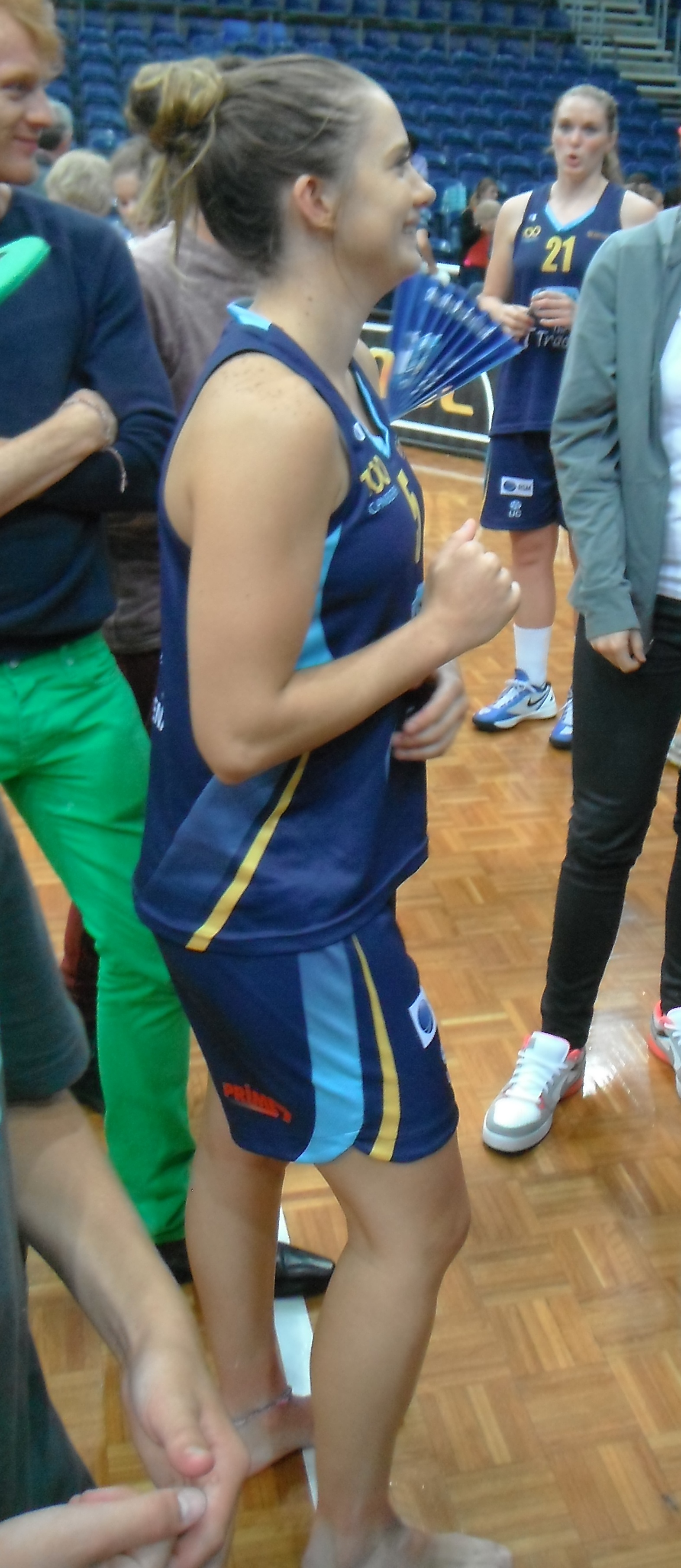 Canberra Capital Tessa Lavey after the game against Townsville Fire.